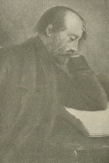 Giuseppe Mazzini, Italian unification politician